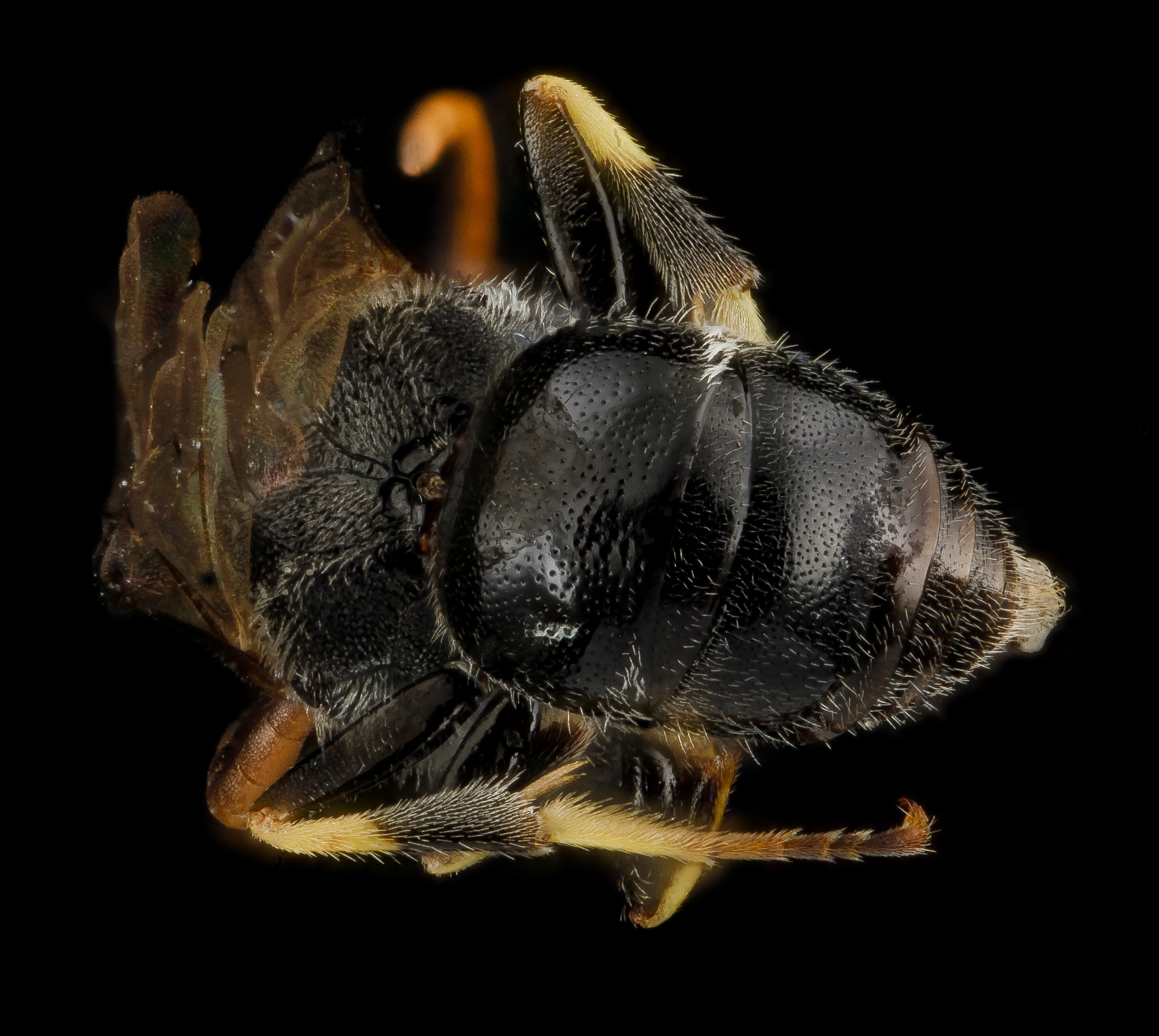 Morris Arboretum, Philadelphia Pennsylvania, non-native species, collected by Stephanie Wilson